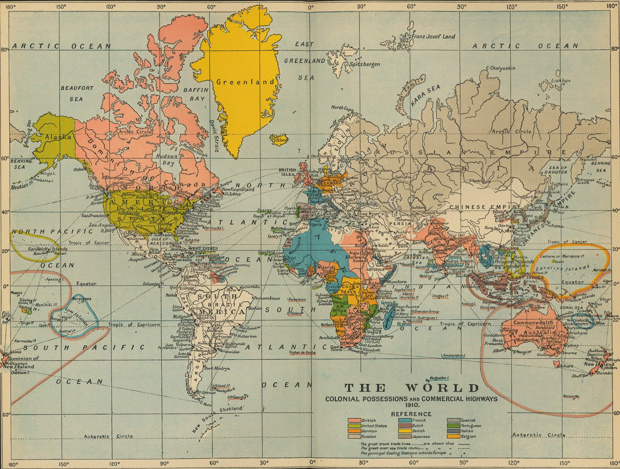 The World: Colonial Possesions and Commercial Highways, 1910